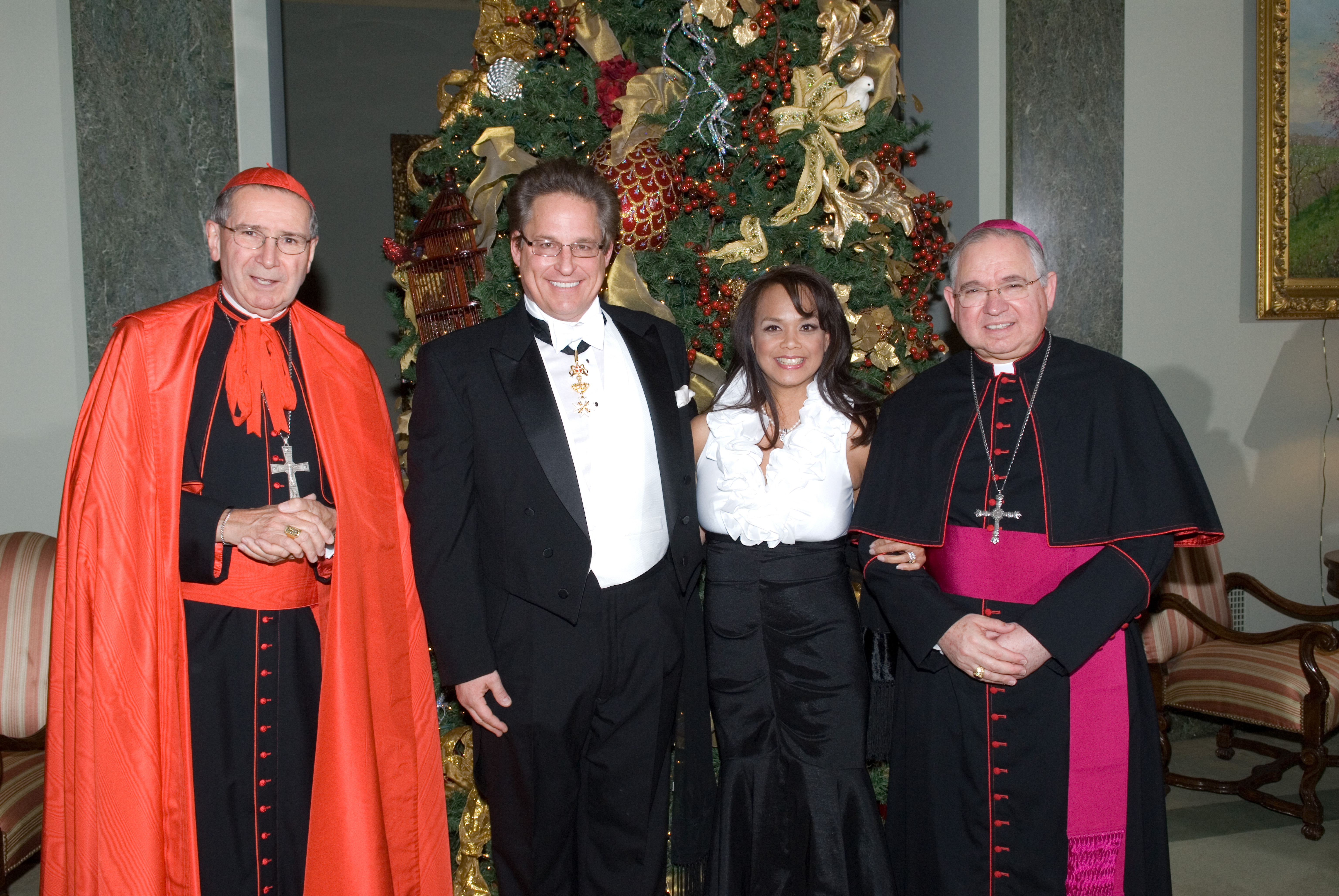 Cardinal Roger Mahony, Mark and Ana Albert, Archbishop Jose Gomez